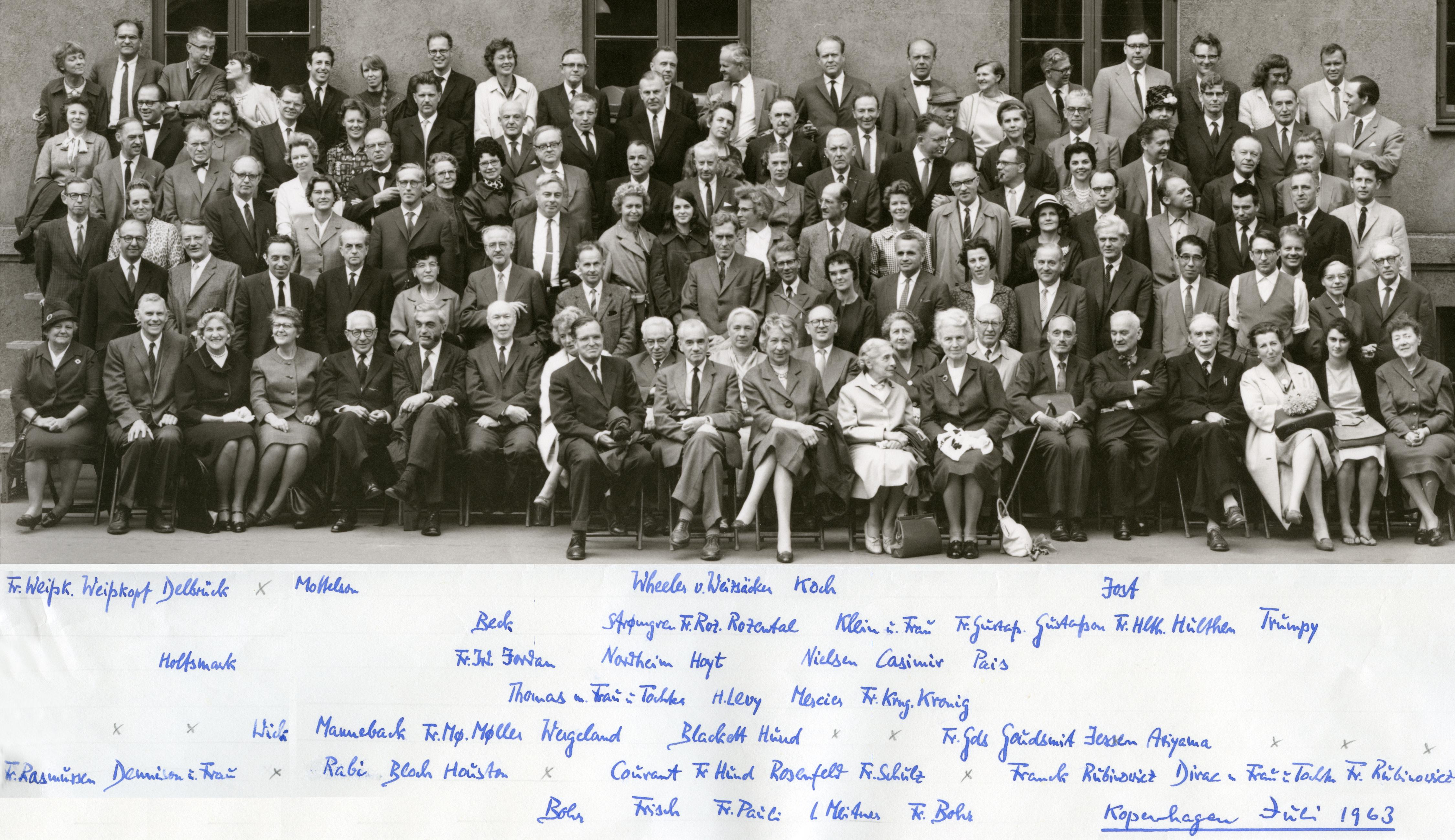 Copenhagen July 1963 - physicists (under them some Nobel Prize winner) - after the death of Niels Bohr. With Hund's original annotations (at the botton) of represented persons.